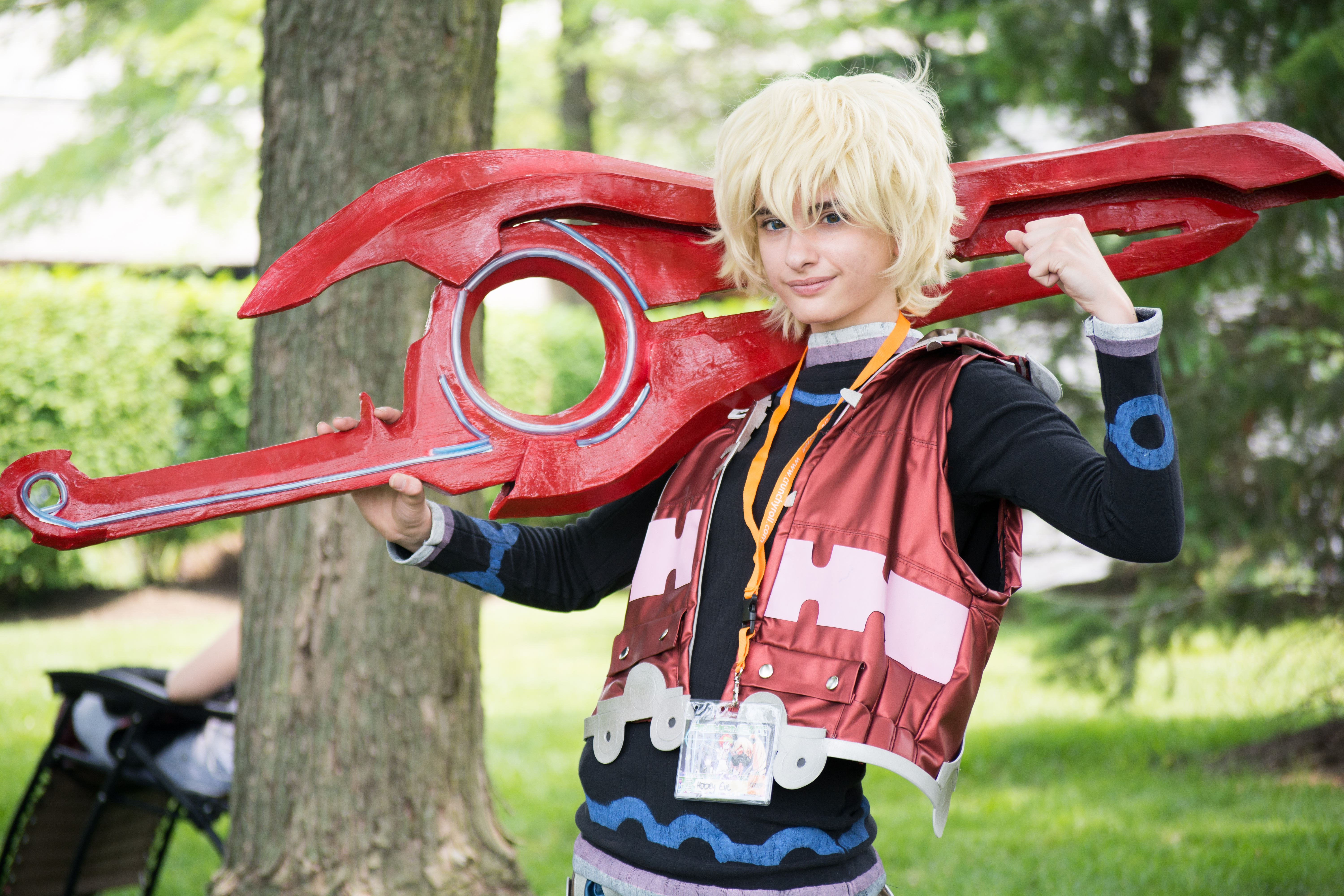 Shulk cosplayer with the Monado weapon